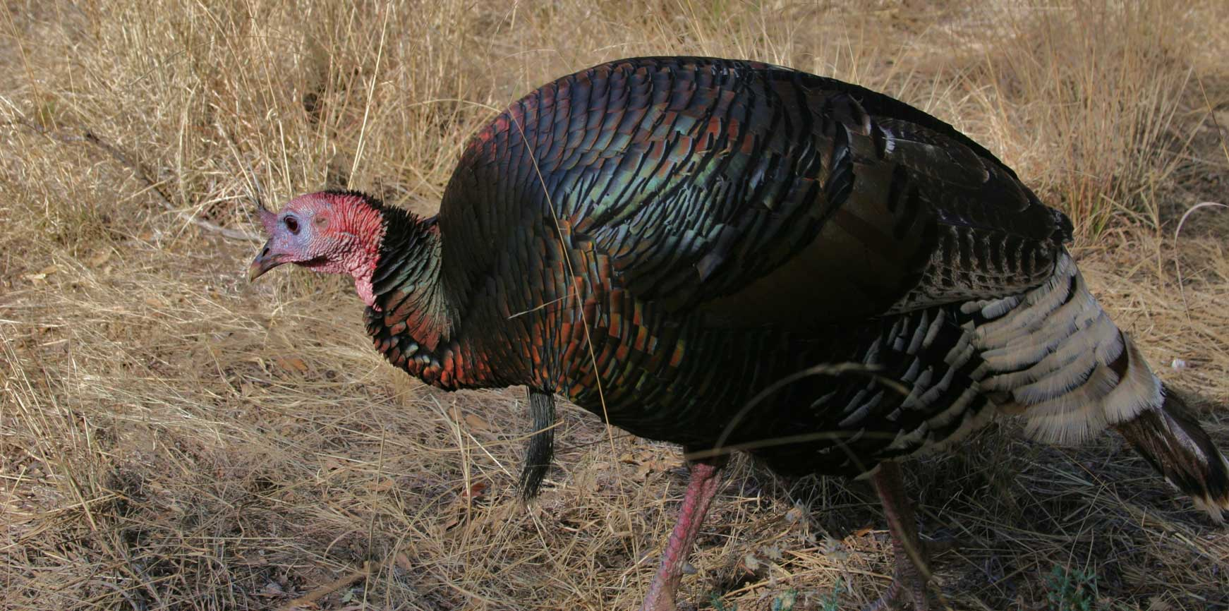 Gould's Wild Turkey Meleagris gallopavo mexicana, Madera Canyon, near Green Valley, Arizona. This photo is published under an Attribution 3.0 license. Any distribution is allowed for non-commercial uses, for commercial uses, please see the site below.